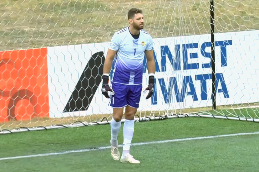 Mehdi Khalil with Ahed against Akhaa Ahli Aley during the 2019-20 Lebanese Premier League